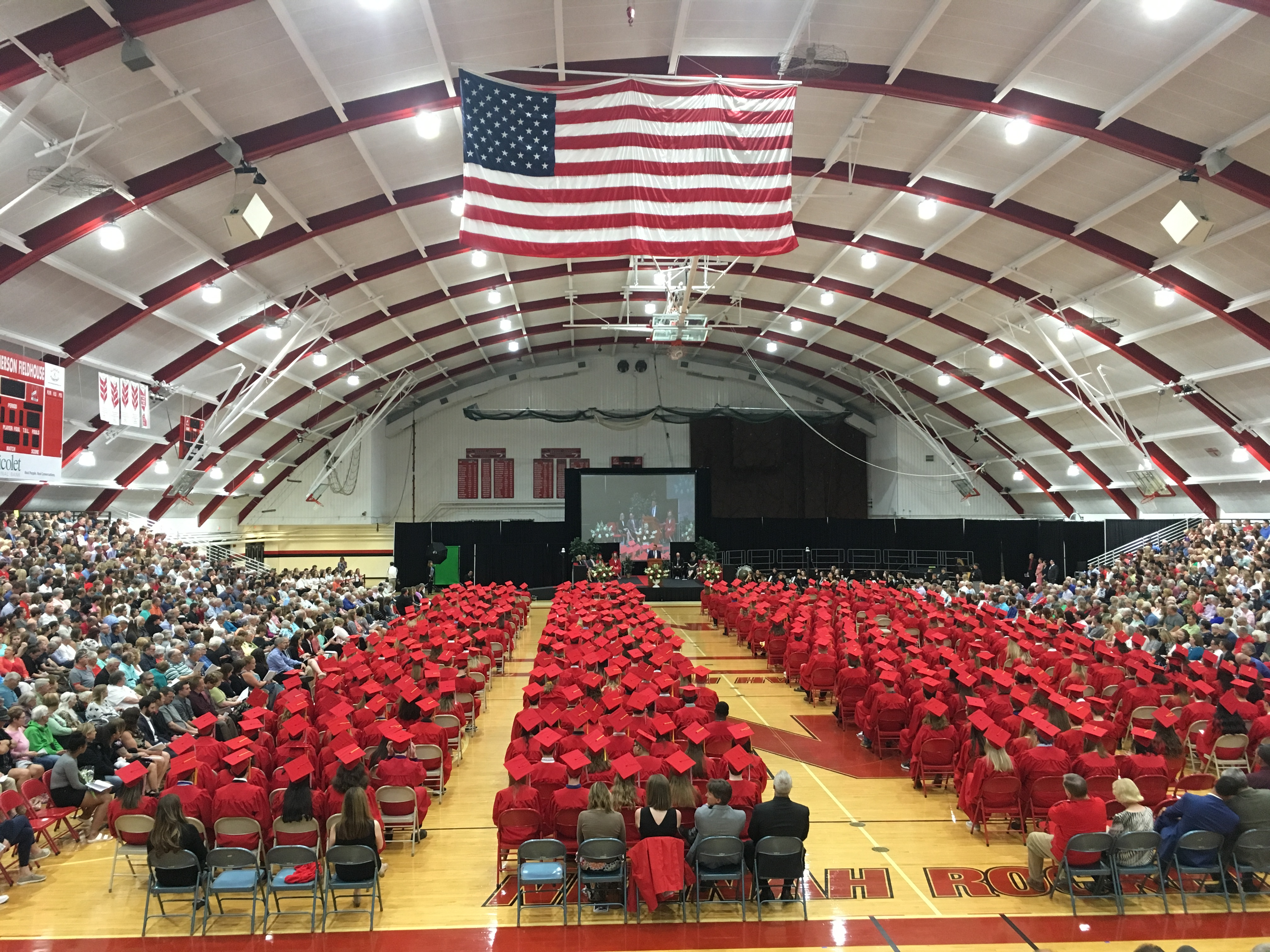 Photograph of the Ron Einerson Field House at Neenah High School during the 2019 graduation ceremony.